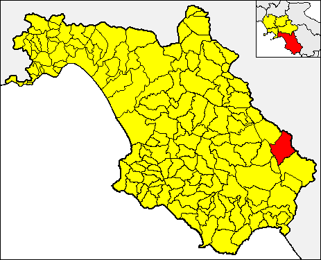 Locator map of the municipality of Padula (red) within the Province of Salerno